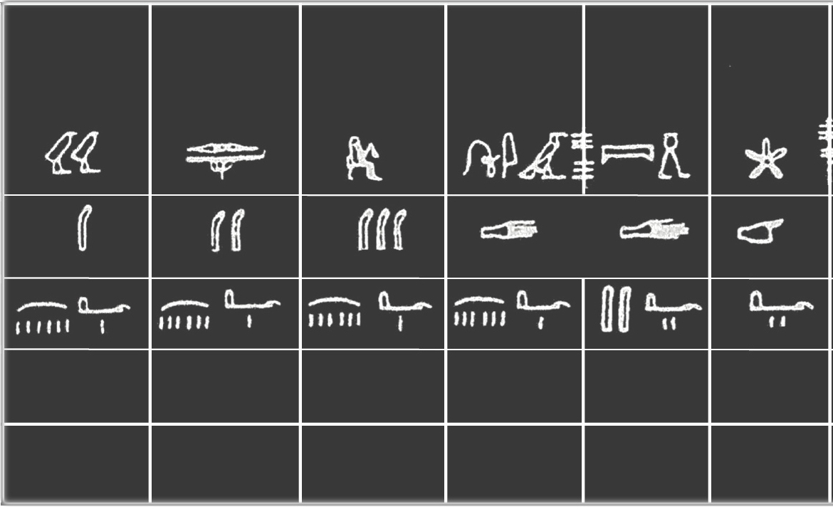 Detail only of a representation of the Turin cubit rod made by user Bakha; the full image is File:Coudée-turin.jpg.